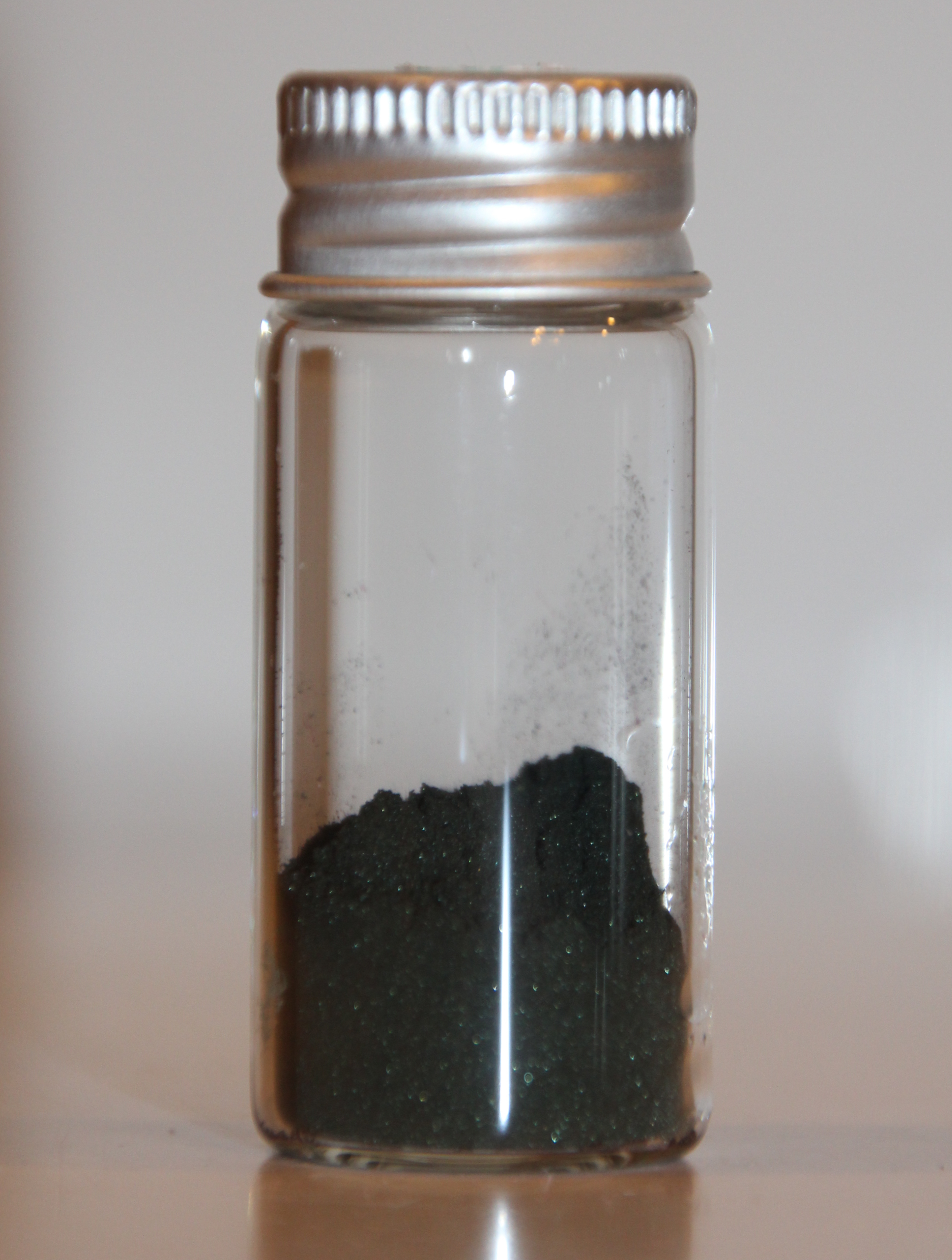 Sample of Safranin O